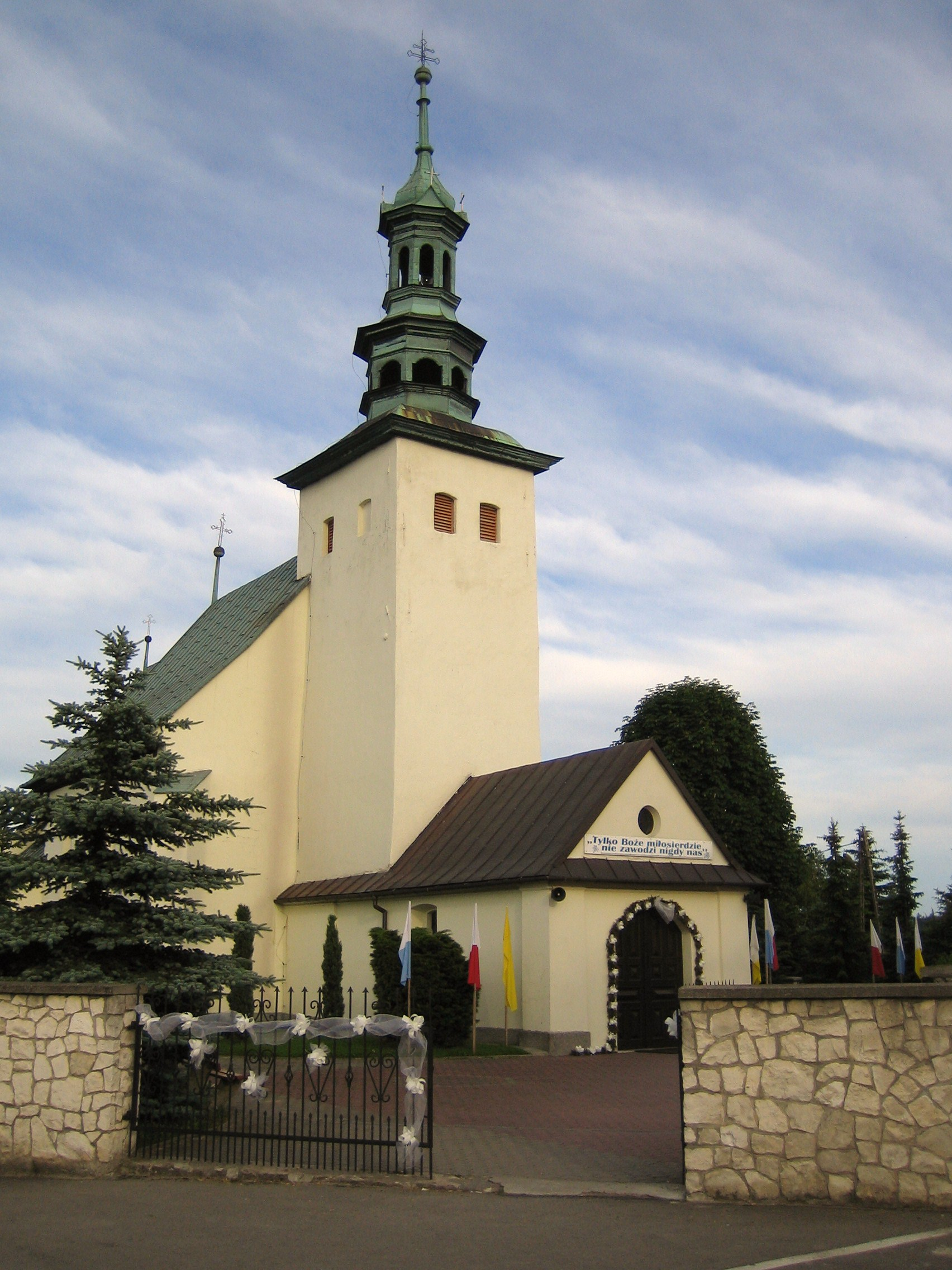 front of St. Nicholas' Church - roman catholic parish church in Niegowa, Poland